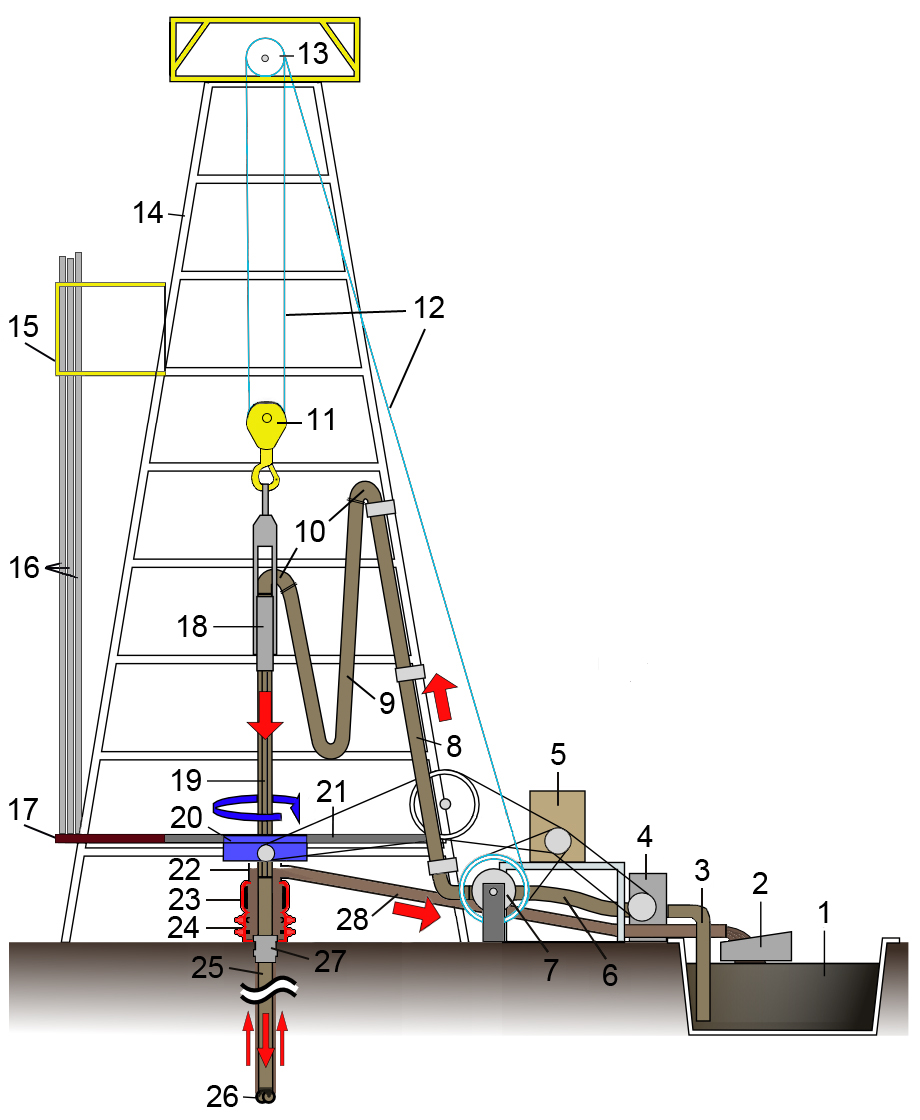 Oil drilling rig, simple illustration. Legend: 1. Mud tank 2. Shale shakers 3. Suction line (mud pump) 4. Mud pump 5. Motor or power source 6. Vibrating hose 7. Draw-works (winch) 8. Standpipe 9. Kelly hose 10. Goose-neck 11. Traveling block 12. Drill line 13. Crown block 14. Derrick 15. Monkey board 16. Stand (of drill pipe) 17. Pipe rack (floor) 18. Swivel (On newer rigs this may be replaced by a top drive) 19. Kelly drive 20. Rotary table 21. Drill floor 22. Bell nipple 23. Blowout preventer (BOP) Annular 24. Blowout preventers (BOPs) pipe ram & shear ram 25. Drill string 26. Drill bit 27. Casing head 28. Flow line